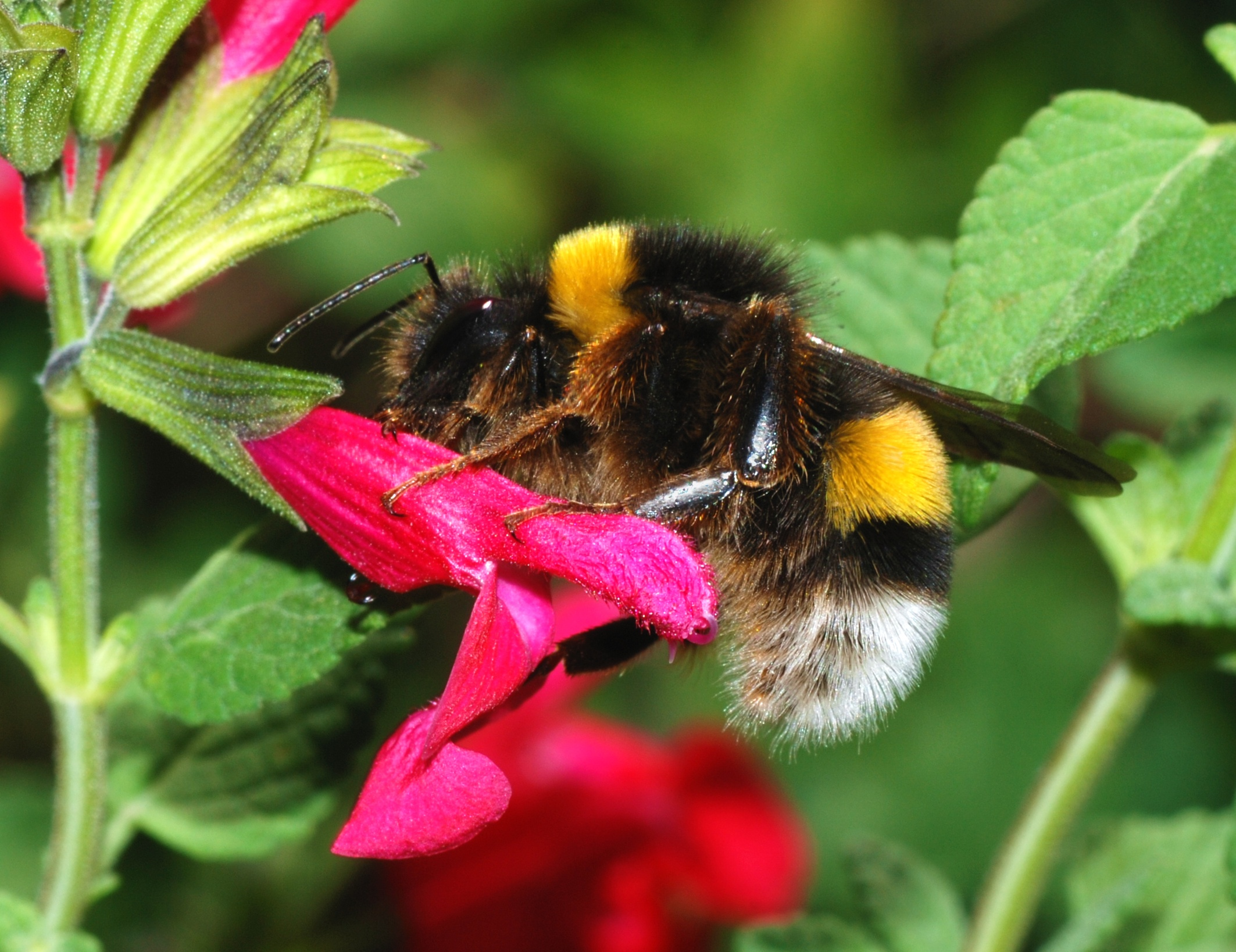 Bumblebee feeding on nectar (Bombus terrestris)